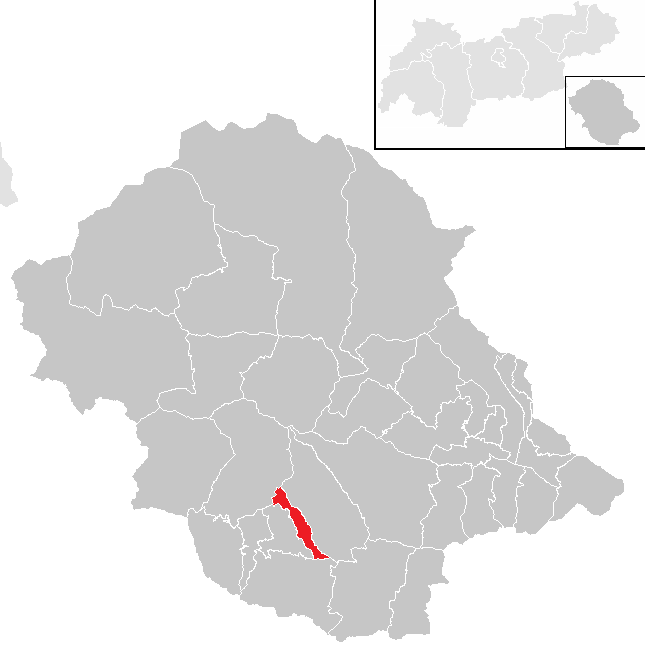 District Lienz